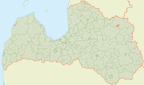 Location of Anna Parish in Latvia